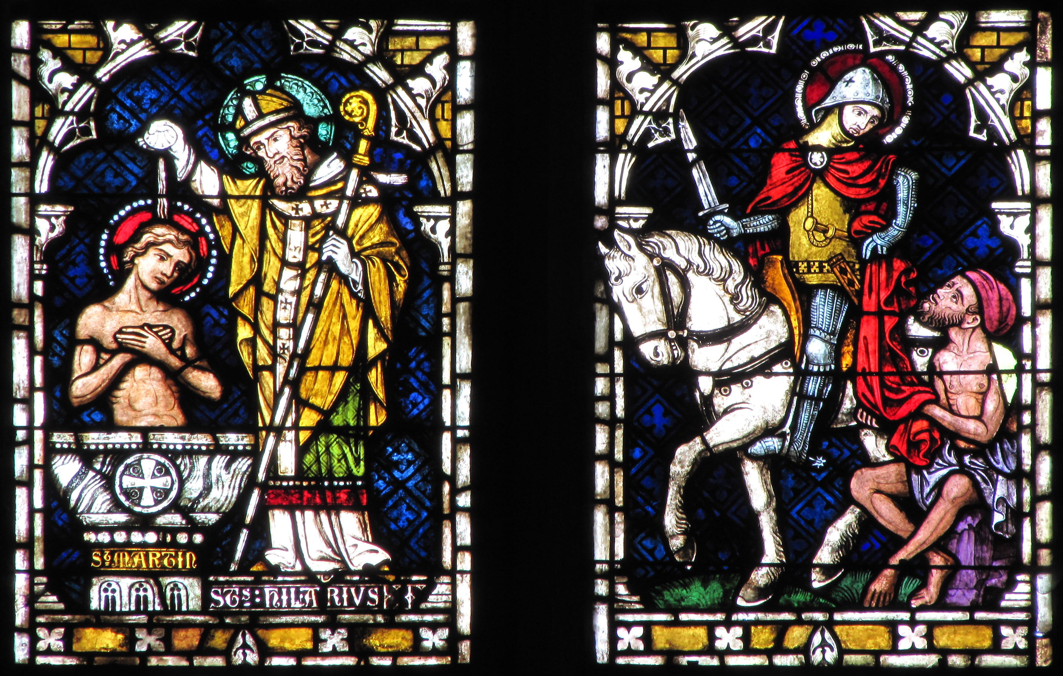 Stained-glass windows of Saint-Martin church in Colmar (Haut-Rhin, France).